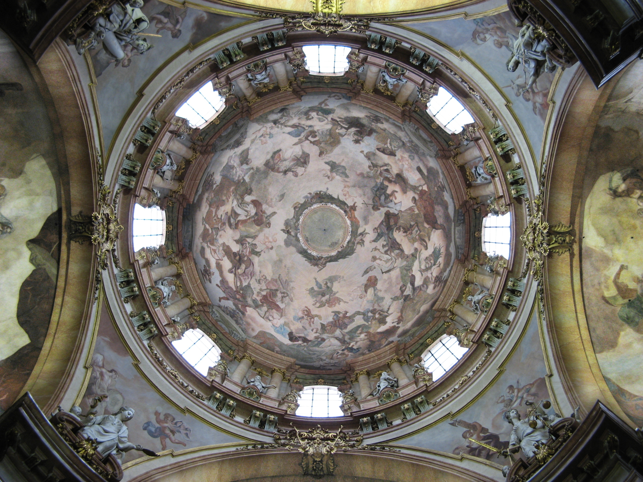 Church of St Nicholas of Lesser Town in Prague, ceiling of the dome.